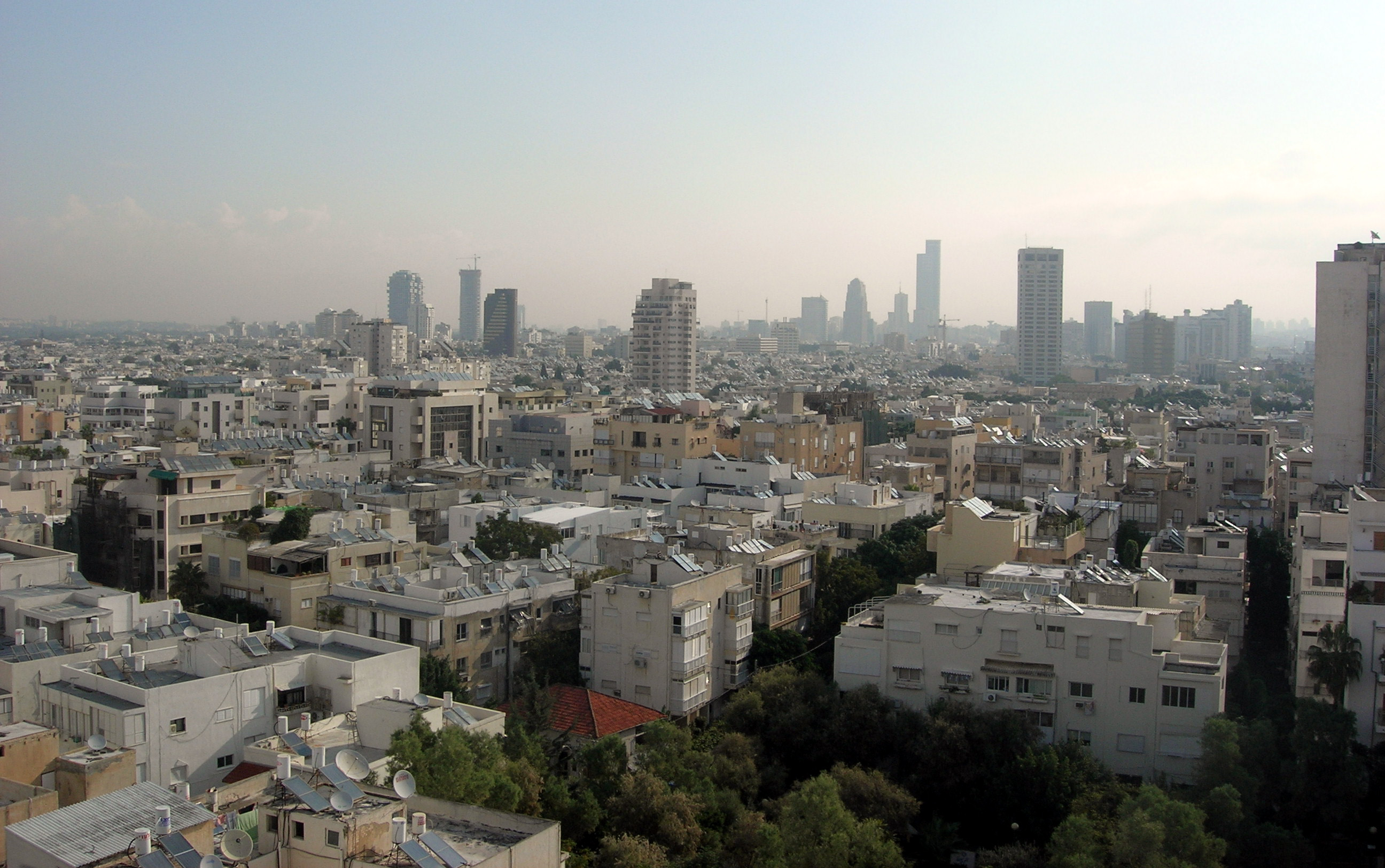 Description =La ville de Tel Aviv Source =Photo taken by Remi Jouan Date =Octobre 2006 Author =Remi Jouan